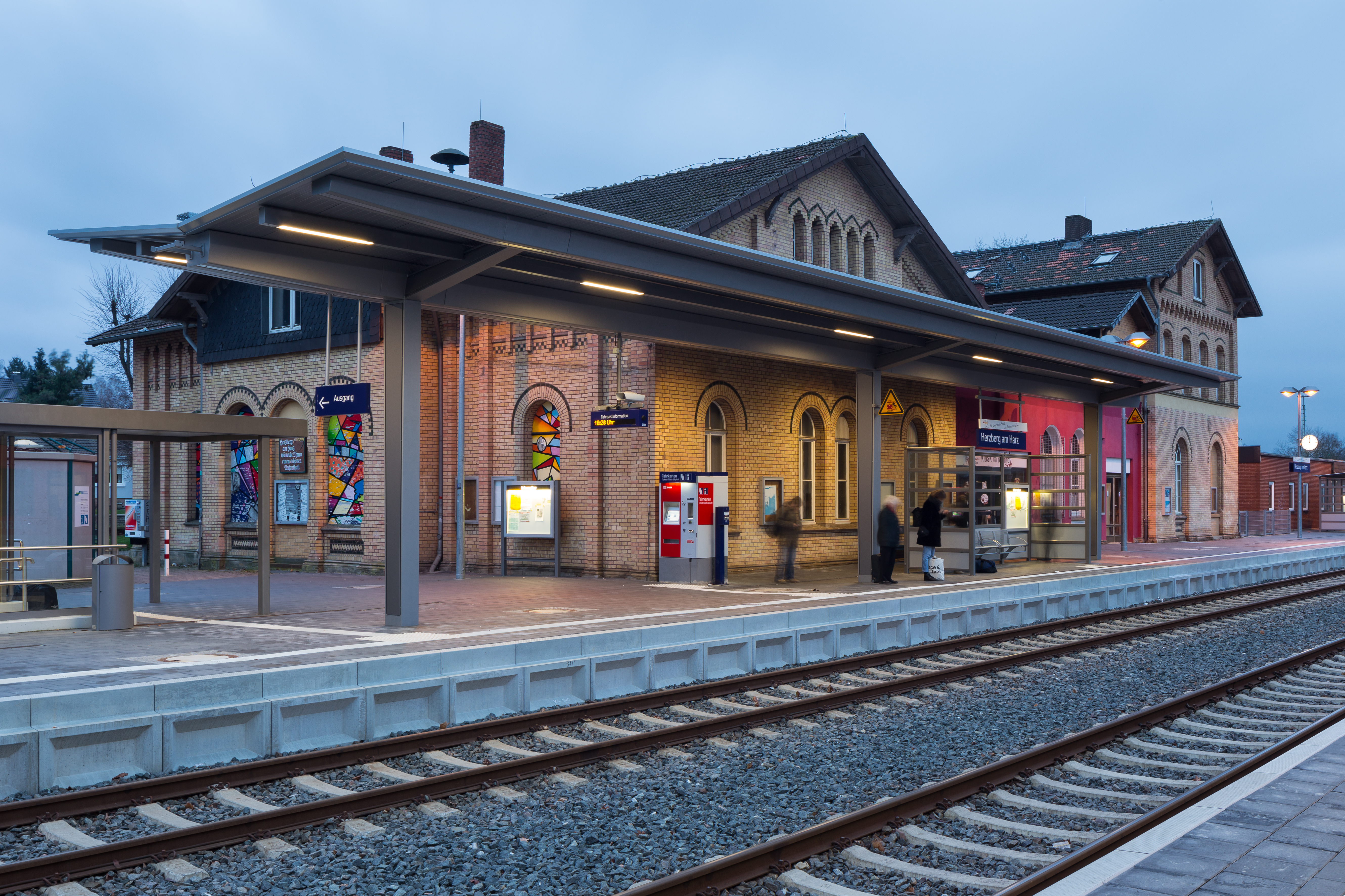 Train station (track side) located in Herzberg am Harz, Germany.